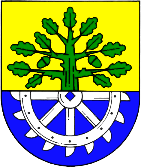 Coat of arms of the former Amt (county) Wensin in Schleswig-Holstein, Germany.